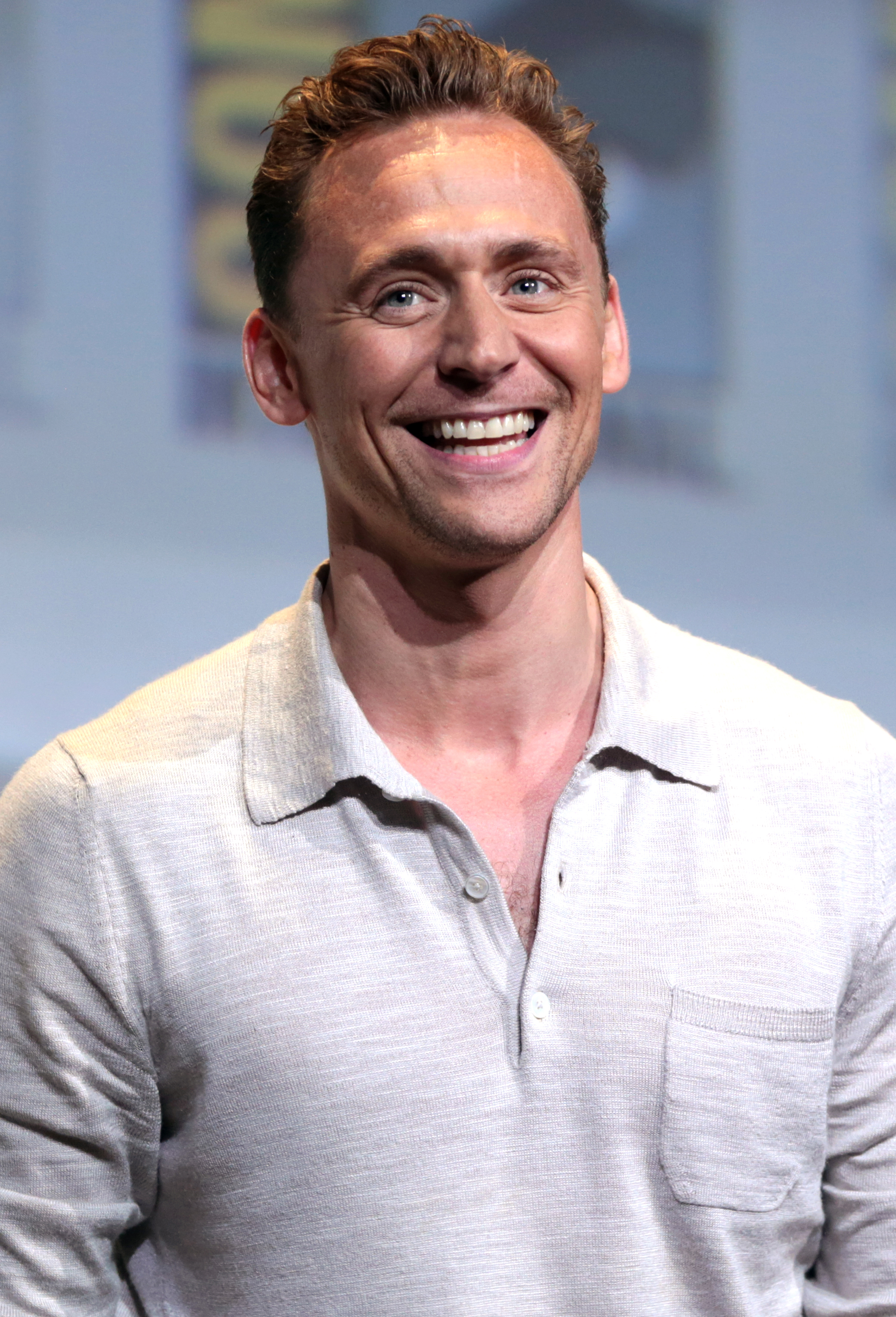 Tom Hiddleston speaking at the 2016 San Diego Comic-Con International in San Diego, California.